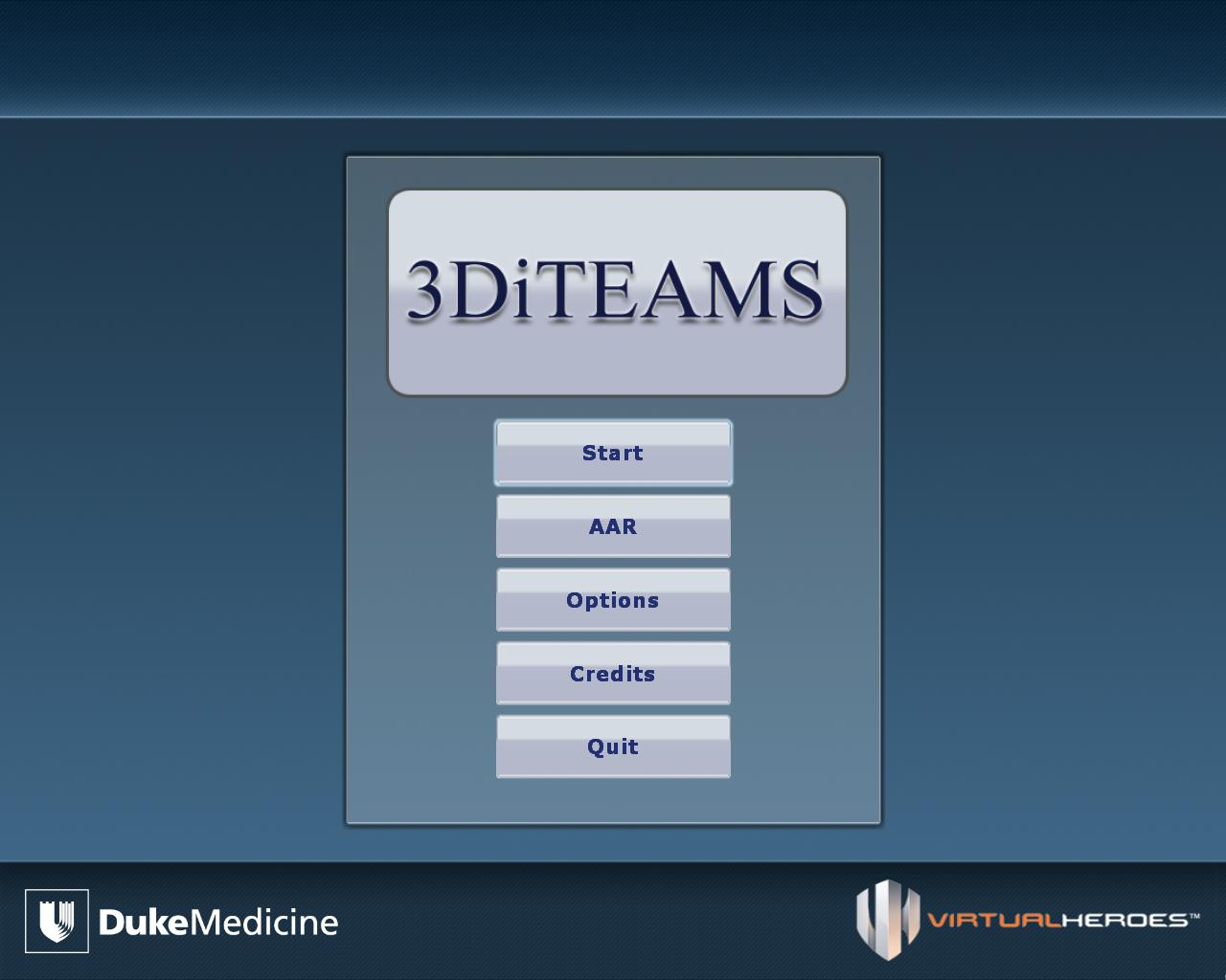 A screenshot from the 3DiTeams game mainmenu Source: Duke University Human Simulation and Patient Safety Center.